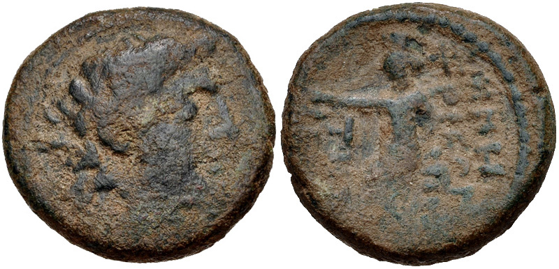 copied from the website: "341, Lot: 2. Estimate $100. Sold for $110. This amount does not include the buyer’s fee. SYRIA, Coele-Syria. Damascus (as Demetrias?). Circa 95-85 BC. Æ (22.5mm, 10.74 g, 12h). Diademed male head right / Tyche seated left on rock, extending arm and holding cornucopia; [river-god] at feet. De Saulcy 2; BMC 1; SNG München –; HGC 9, 1458. Fine, dusty green patina. Rare."